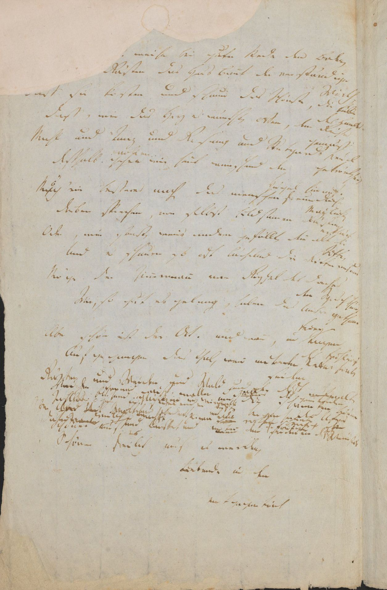 Manuscript of Hölderlin#s poem "Der Gang aufs Land", part 2